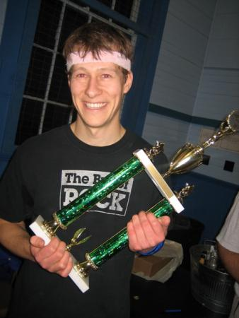 Jasper Turner, Men's Four Square World Champion at the crowning on Feb 3, 2007. Photo taken by Sean Effel.